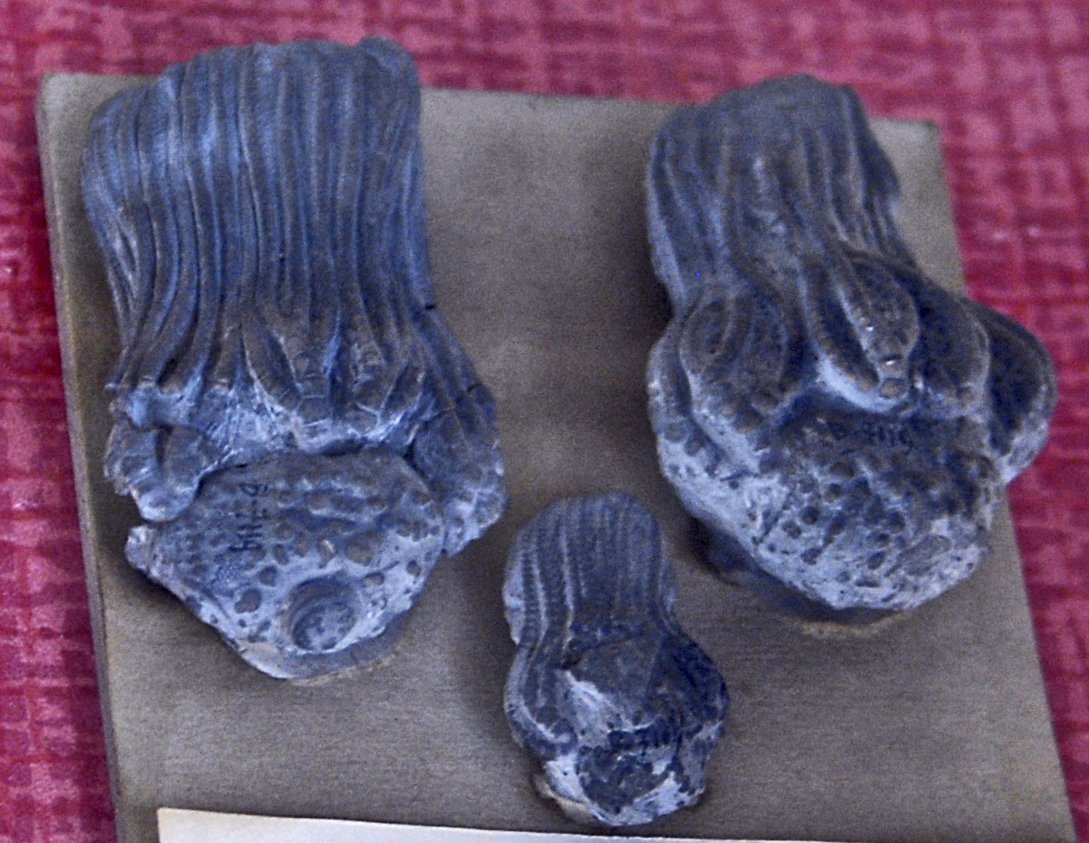 Crop of file in filename